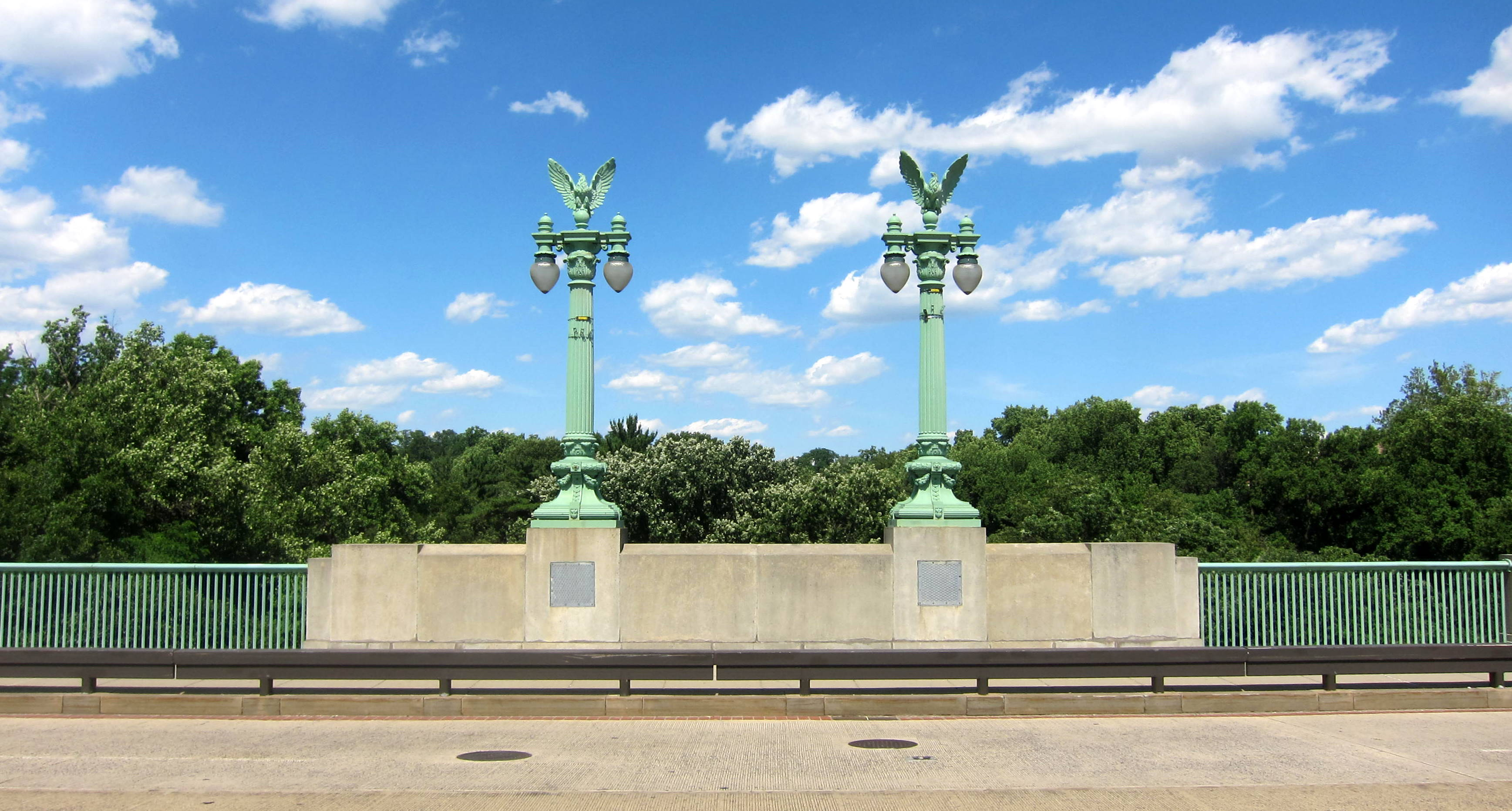 Ornamental lamp posts on the Taft Bridge, which carries Connecticut Avenue over Rock Creek and the Rock Creek and Potomac Parkway, located between the Kalorama and Woodley Park neighborhoods of Washington, D.C.